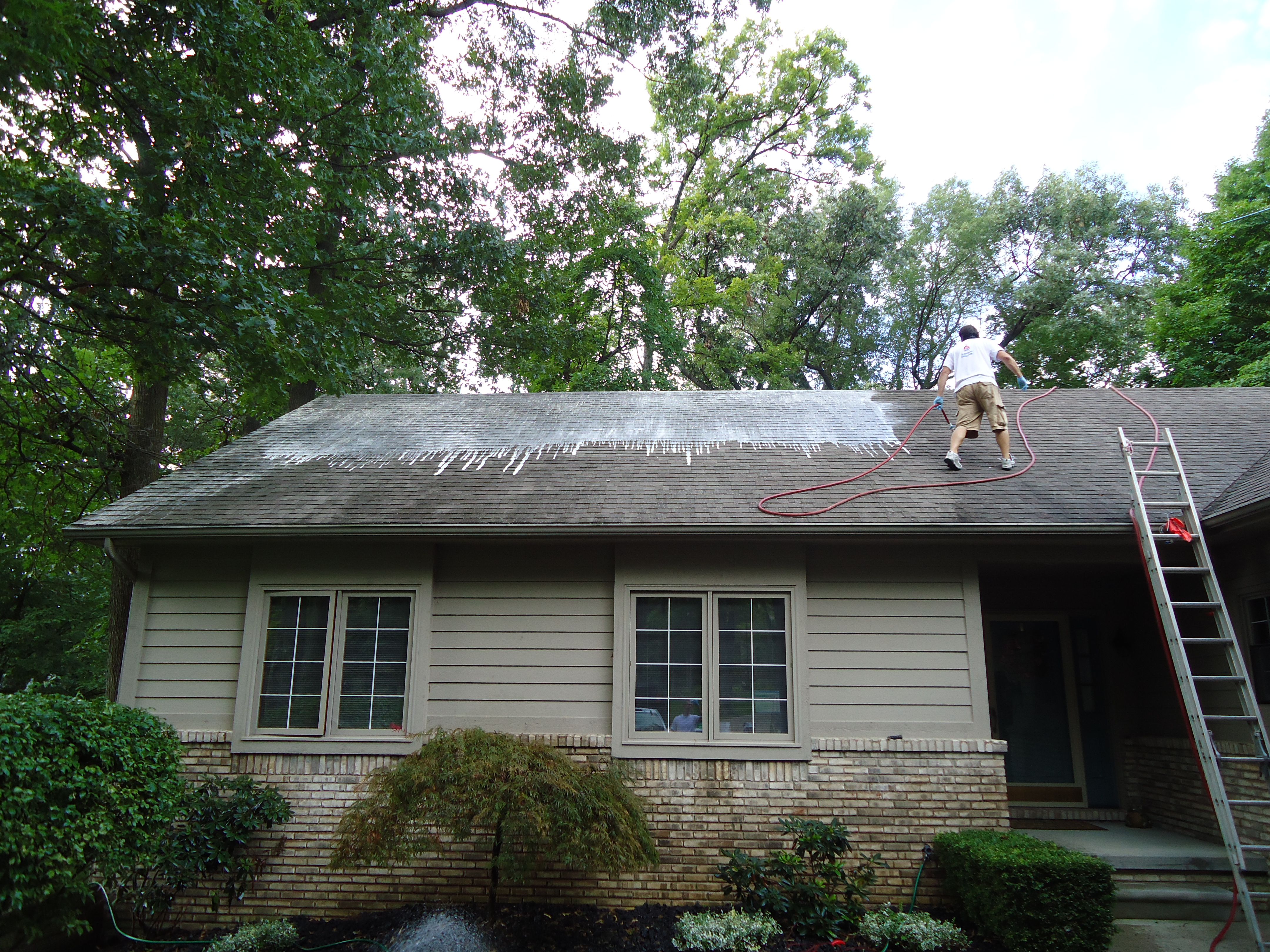 Roof Cleaning in Michigan